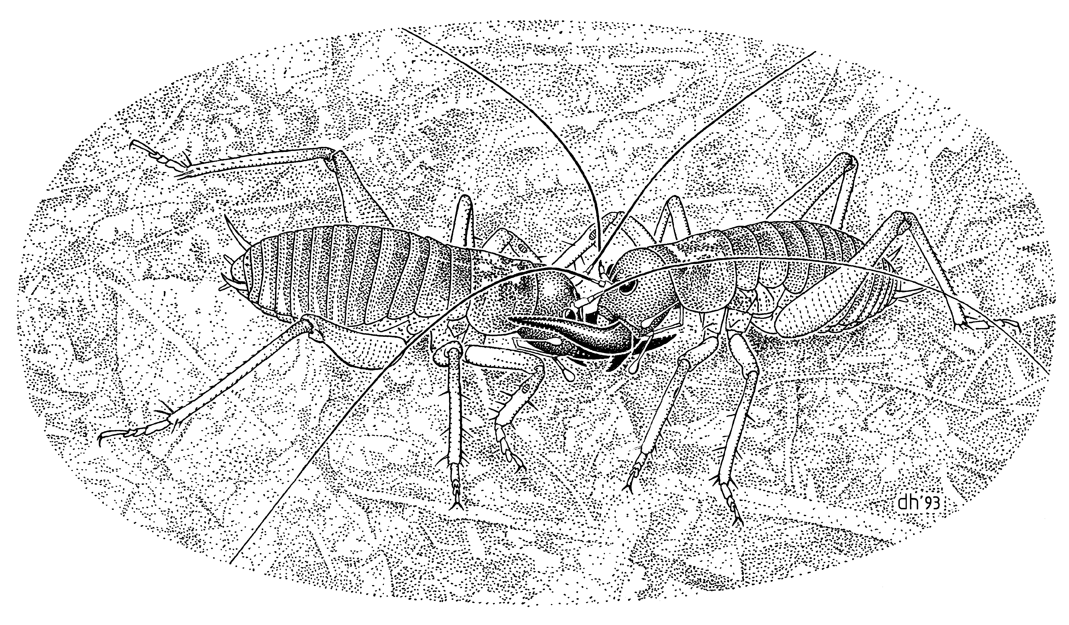 (Orthoptera: Anostostomidae) Motuweta illustrated by Des Helmore.